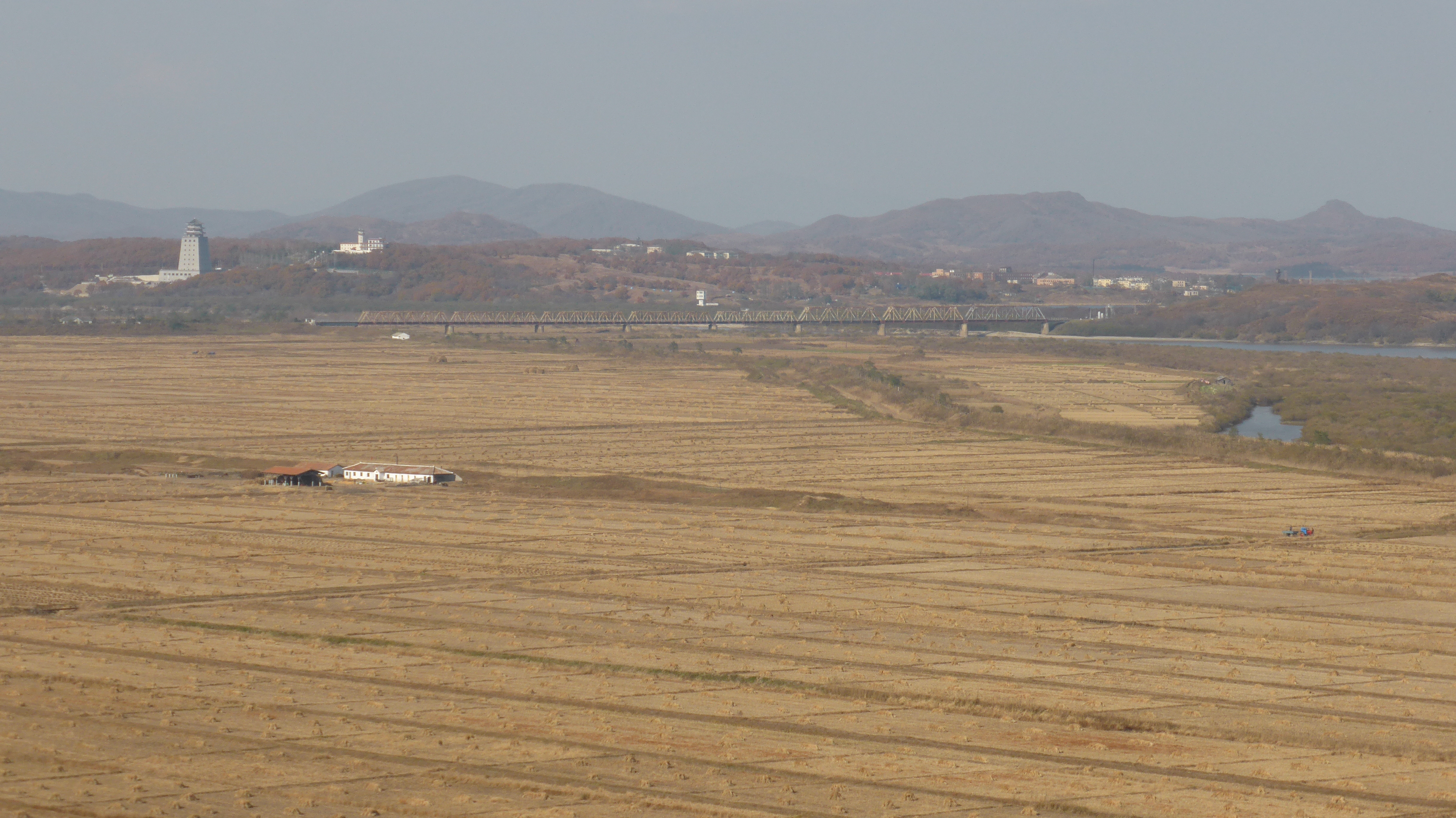 Friendship rail bridge linking North Korea and Russia